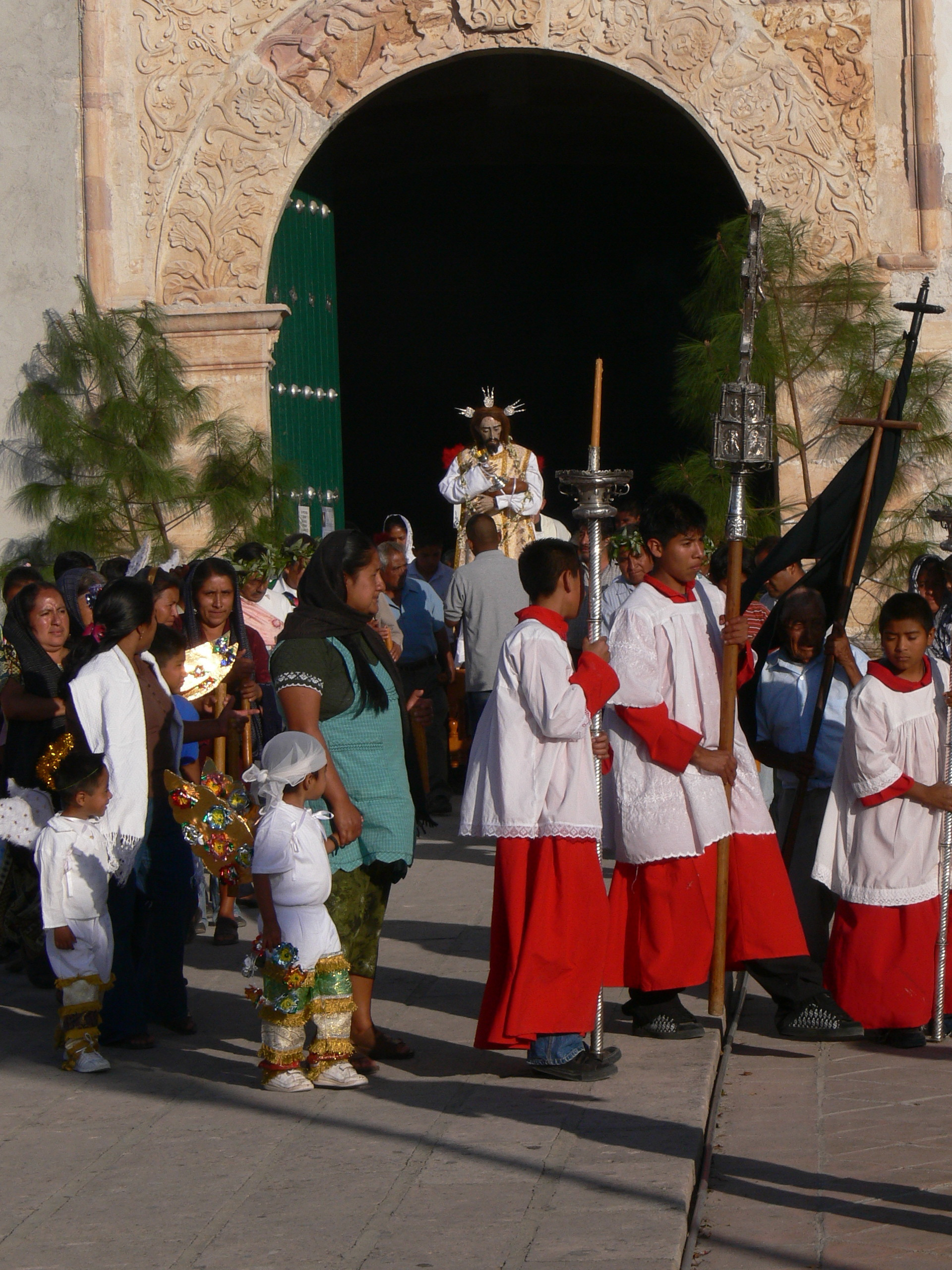 Teotitlán del Valle. Maundy Thursday procession in front of the church.